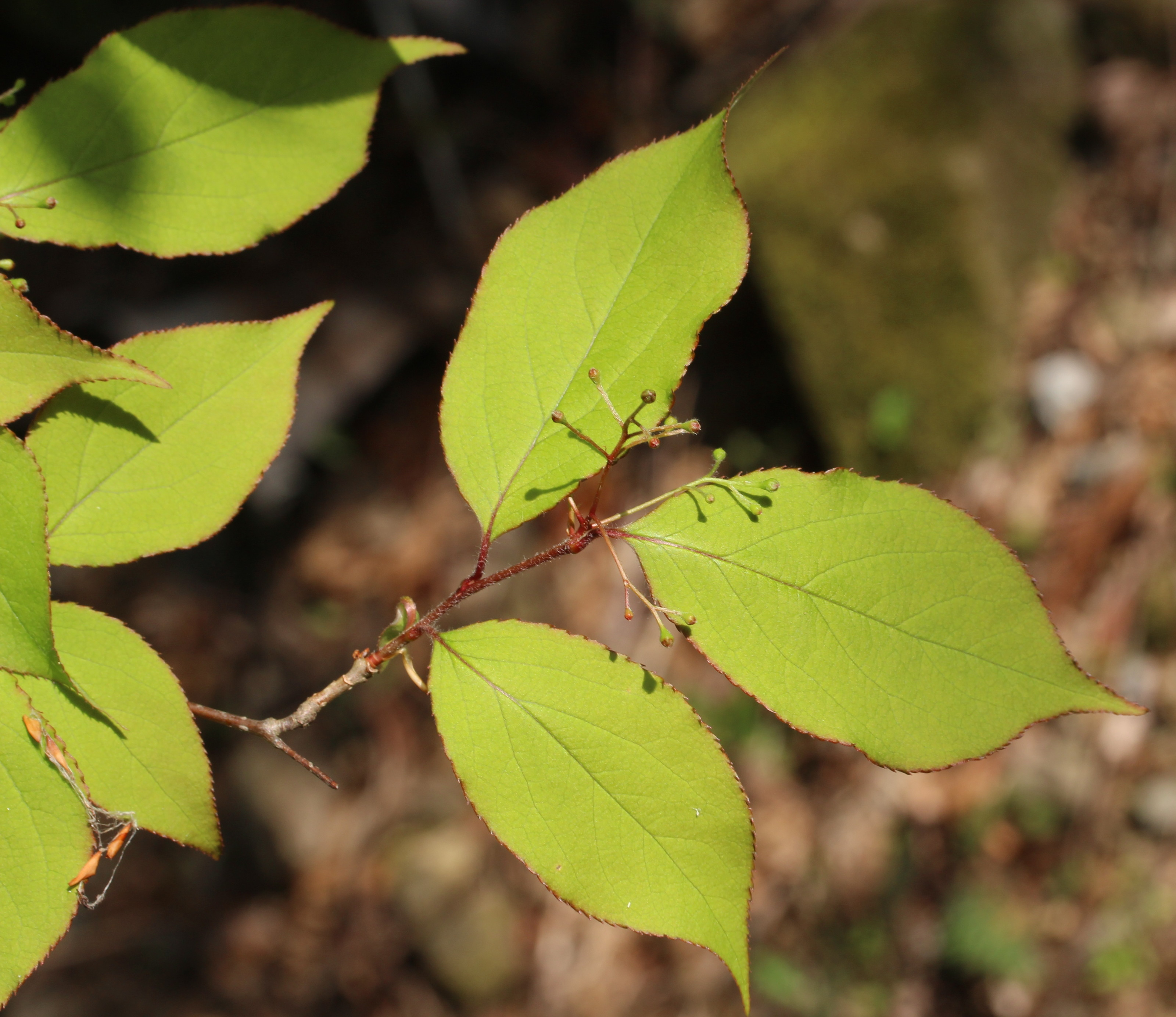 Leaves (front) of Japanese Bird Cherry Padus grayana (Prunus grayana), in Yōrō Mountains、Inabe, Mie pref. ,Japan.